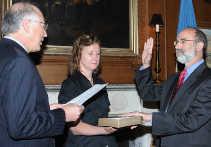 Secretary of the Interior Ken Salazar swears in Michael Bromwich as the new Director of the Bureau of Ocean Energy Management, Regulation, and Enforcement on June 21 as Betsy Hildebrandt, DOI Communications Director holds the Bible.